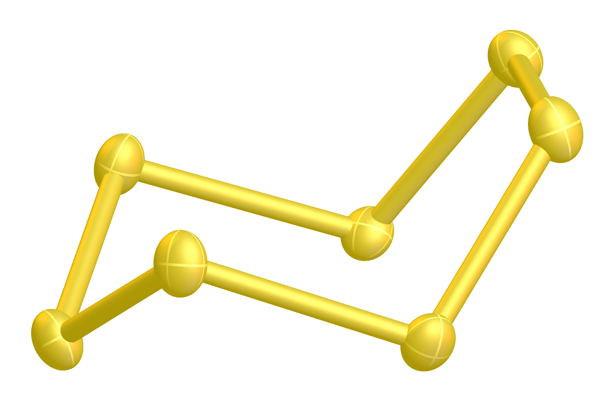 structure of Cycloheptasulfur, S7.